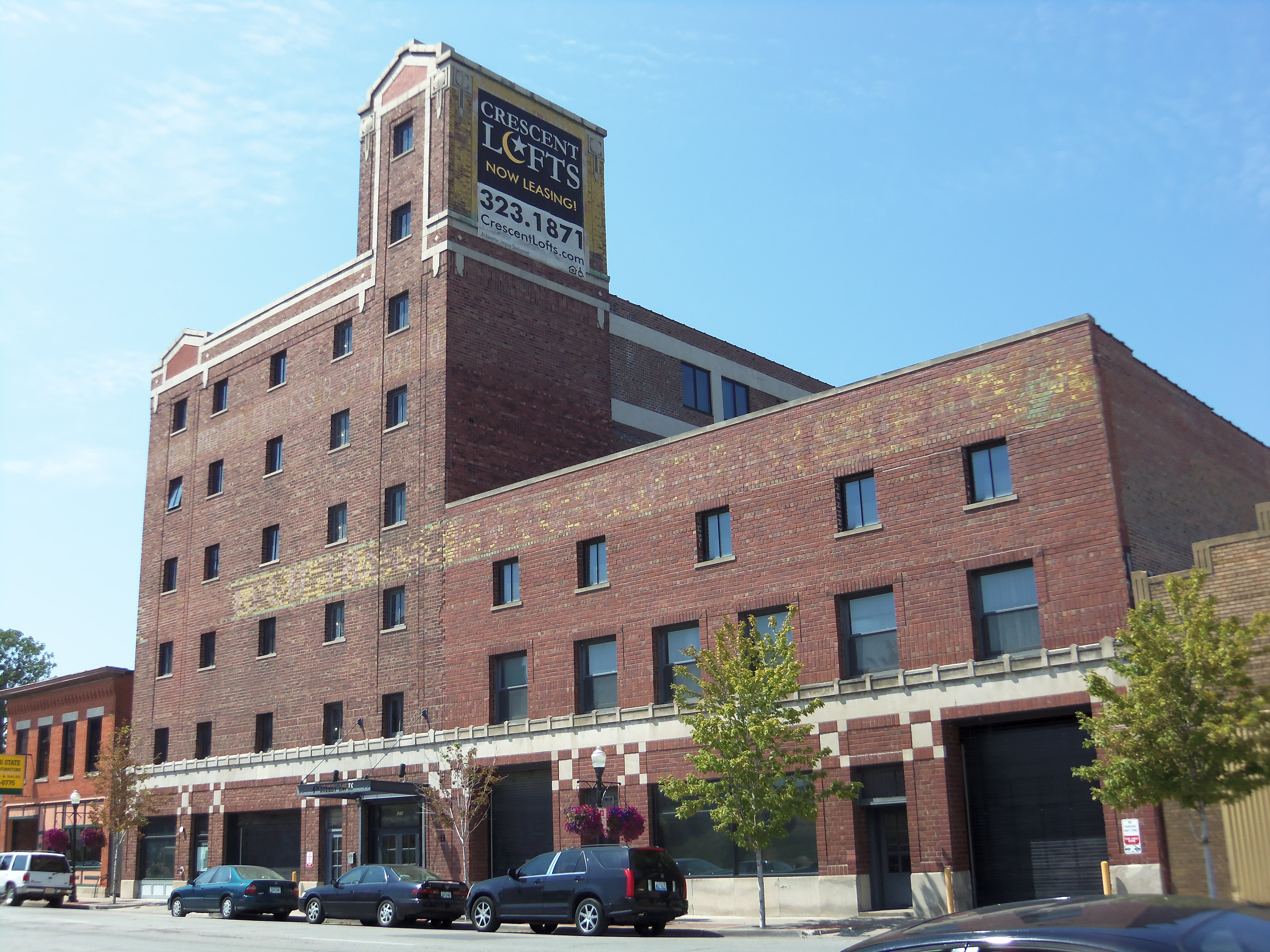 An old warehouse in downtown Davenport, Iowa is a contributing property in the Crescent Warehouse Historic District, which is listed on the National Register of Historic Places. The building now contains loft apartments. The taller part of the structure on the left was completed in 1915 and the shorter part of the structure on the right was completed in 1933. The Davenport architectural firm of Clausen and Kruse designed both sections.